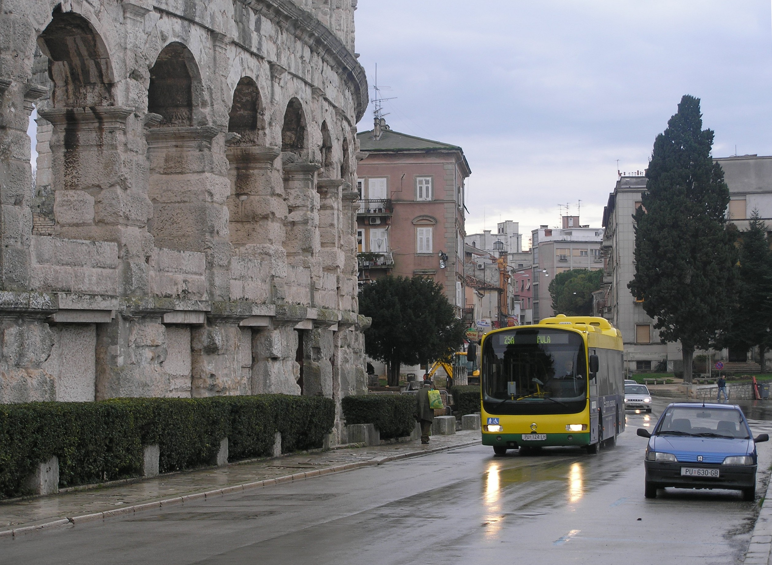 A Pulapromet bus